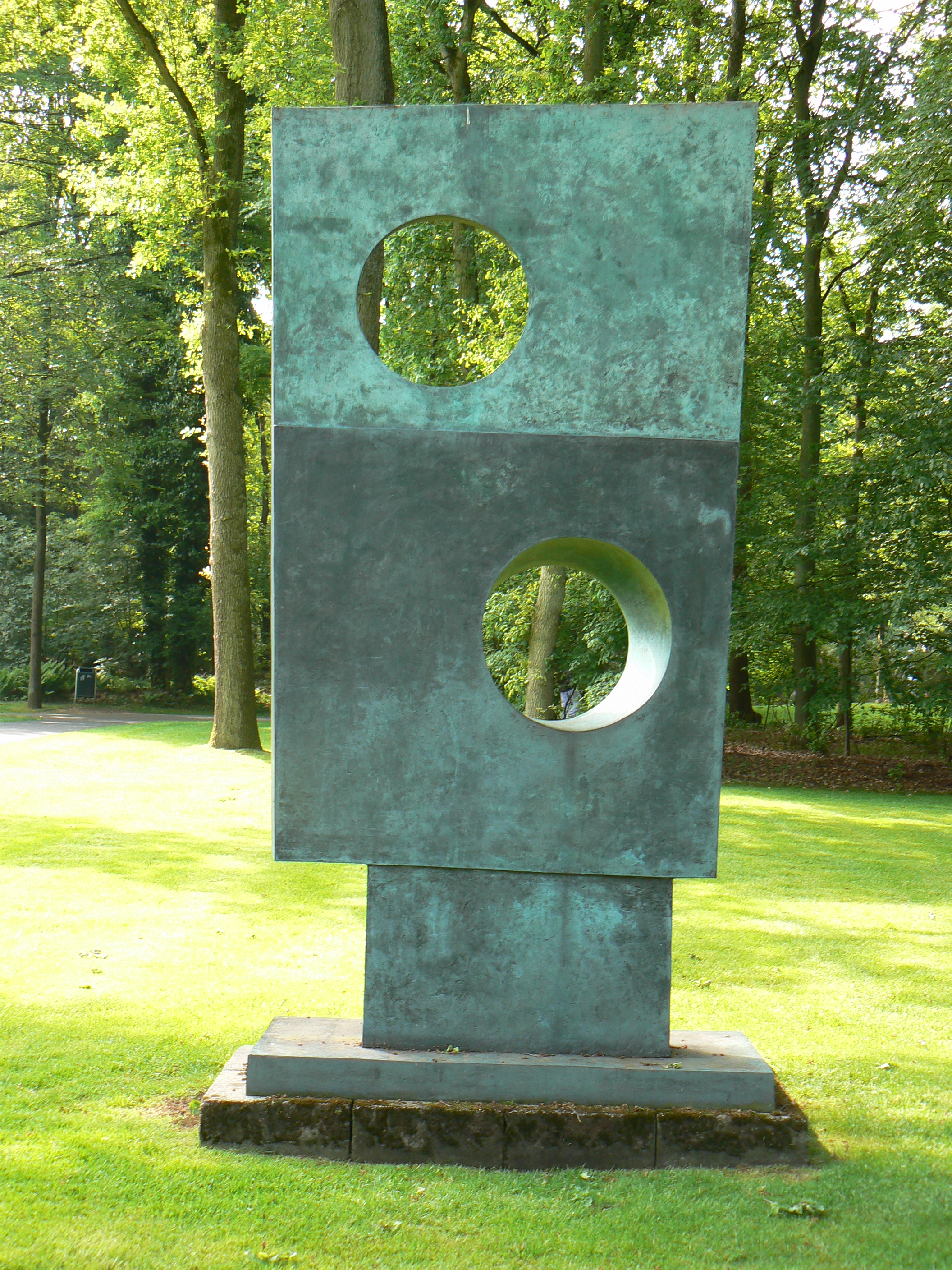 Sculpture Squares with two circles (1963/4) by Barbara Hepworth in KMM Sculpturepark/The Netherlands